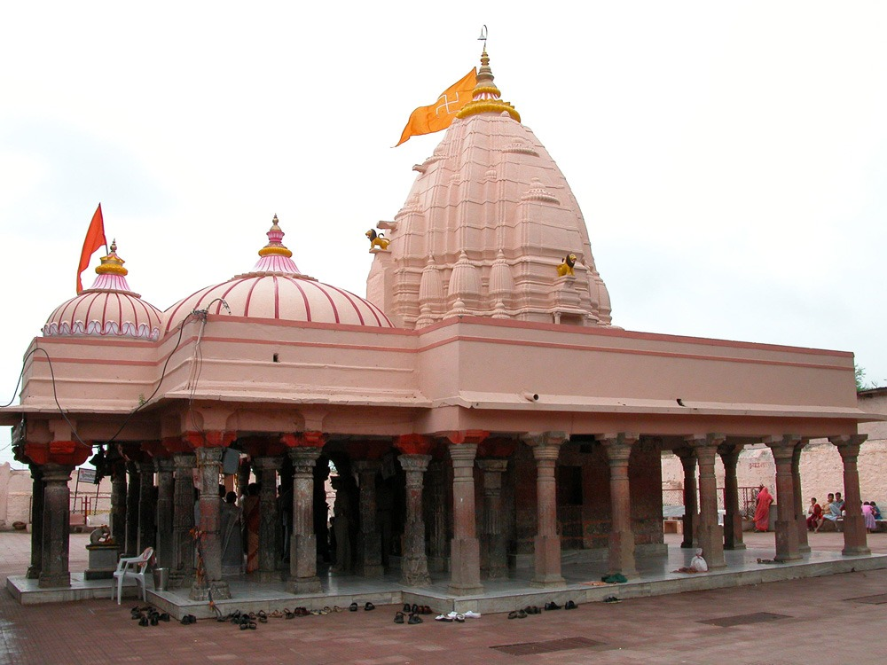 Inside View